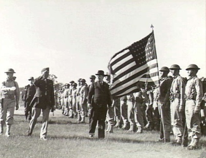 Australian Army Minister Frank Forde reviews troops of the 41st Infantry Division, accompanied by Major General Horace H. Fuller